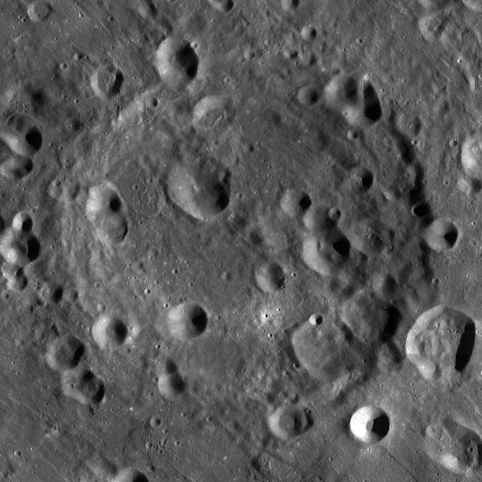 Michelson crater, on the far side of the moon. Mosaic of LRO WAC images.